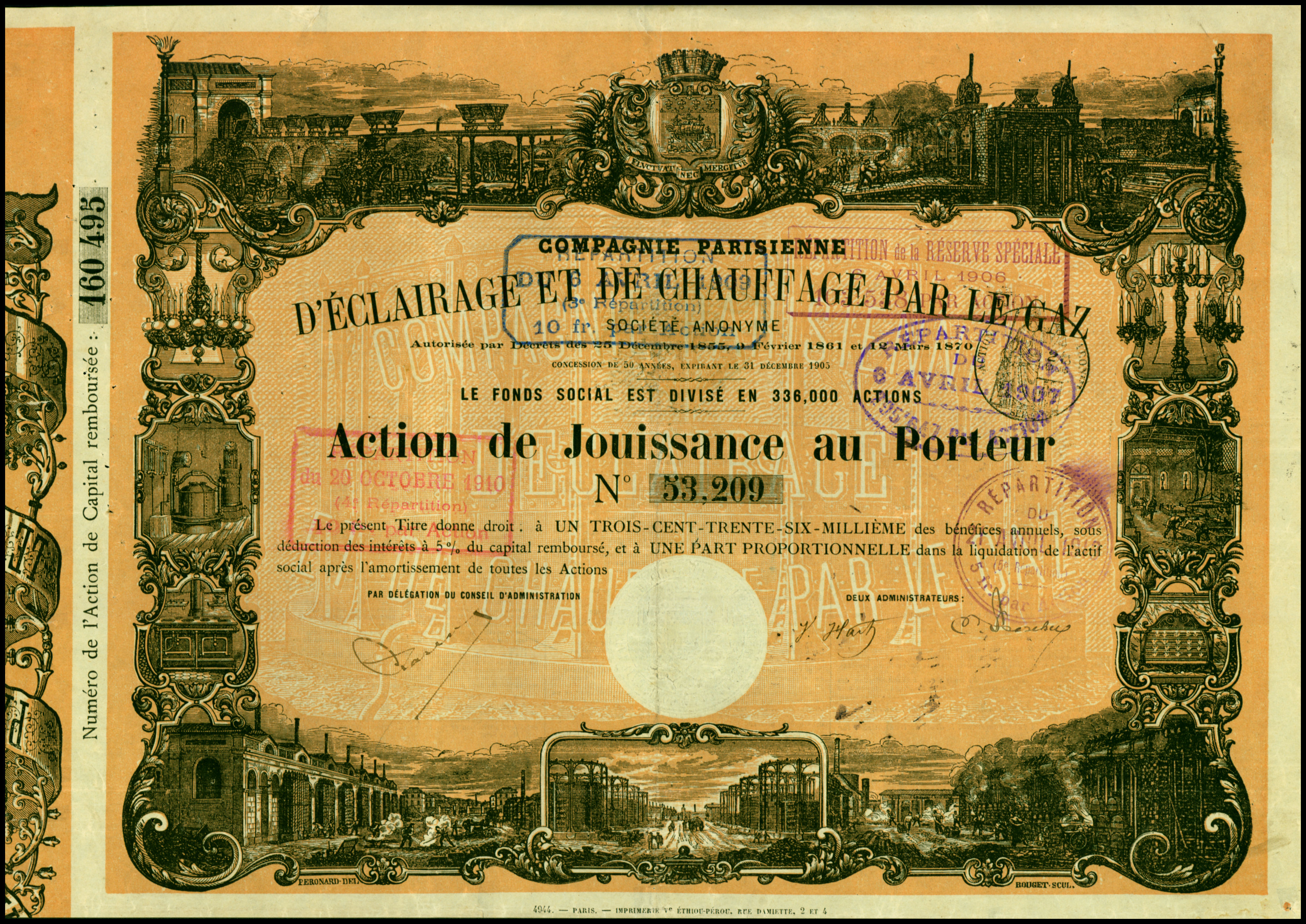 Participation certificate of the Comp. Parisienne d'Éclairage et de Chauffage par le Gaz SA, issued 12. March 1870